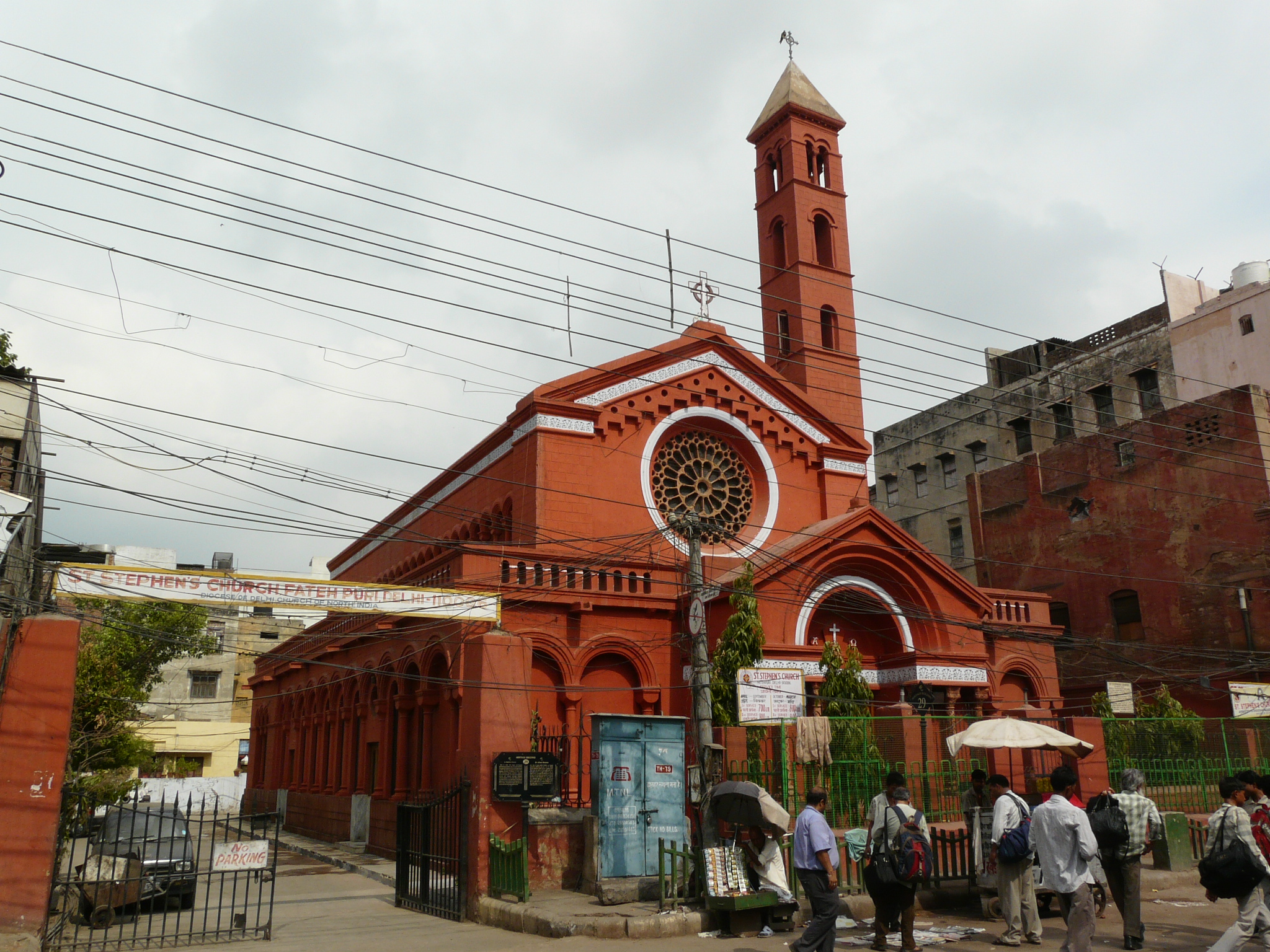 St. Stephen's Church, in Delhi, among oldest church in India